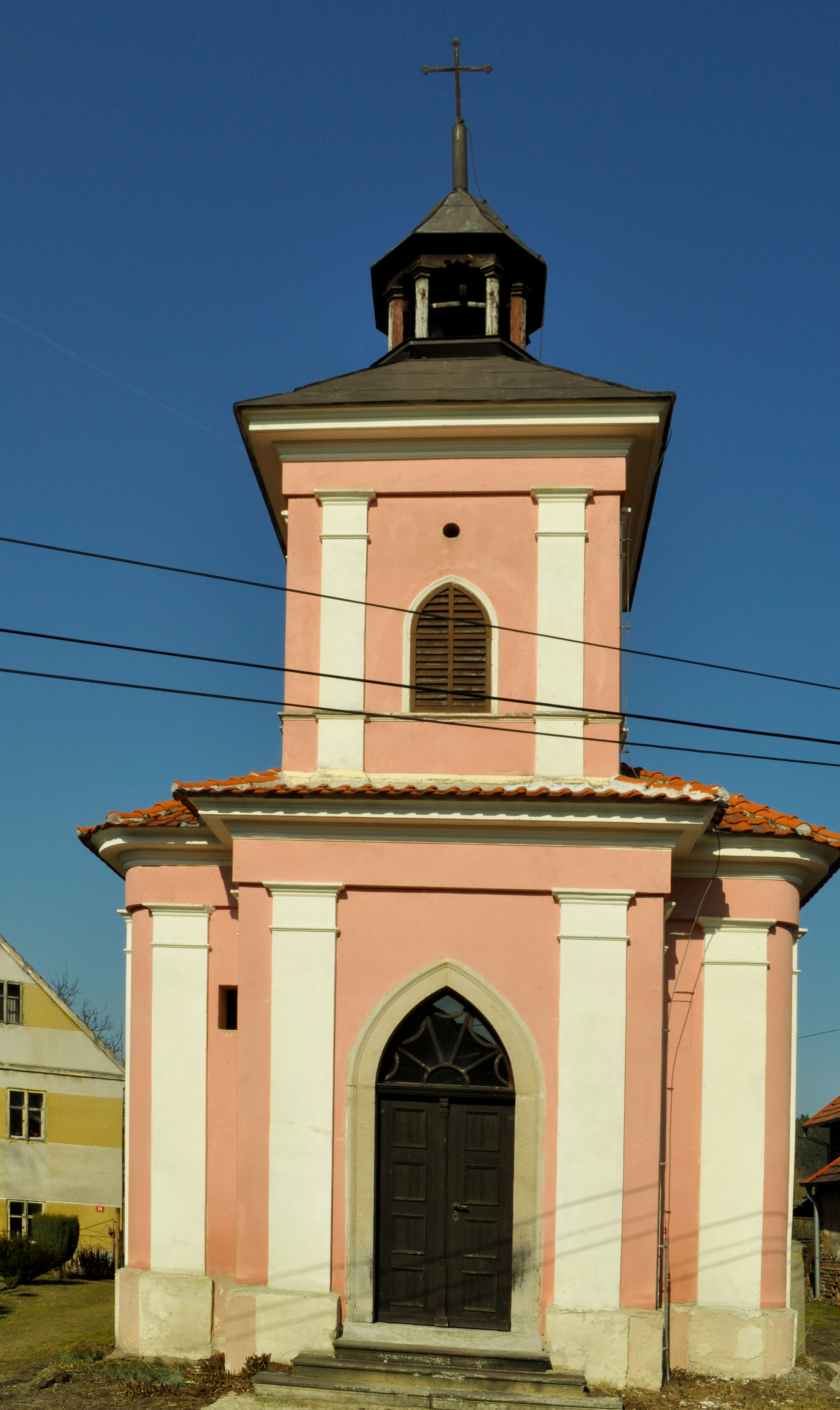 Church in Rašovice, Ústí nad Labem Region